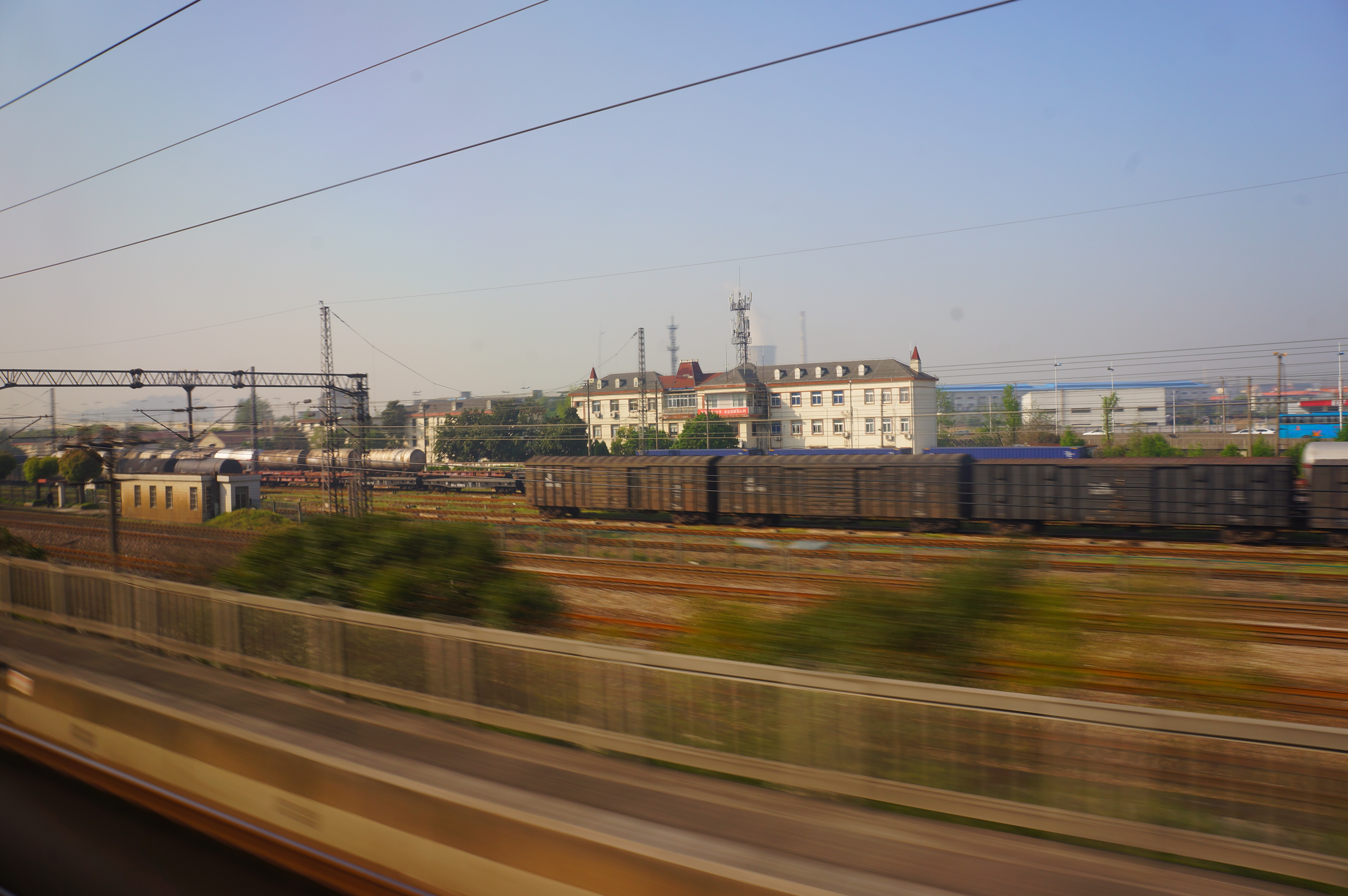 201704 Suzhouxi Station